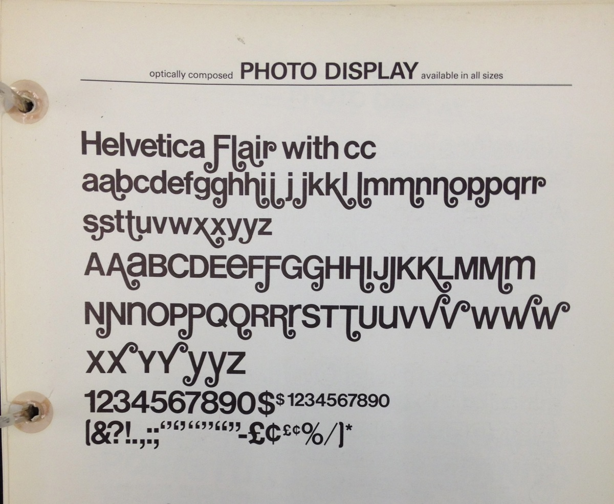 A specimen book of the font Helvetica Flair, photographed by James Puckett. Considered an example of 1970s design, Helvetica Flair remains copyrighted but has never been released digitally.